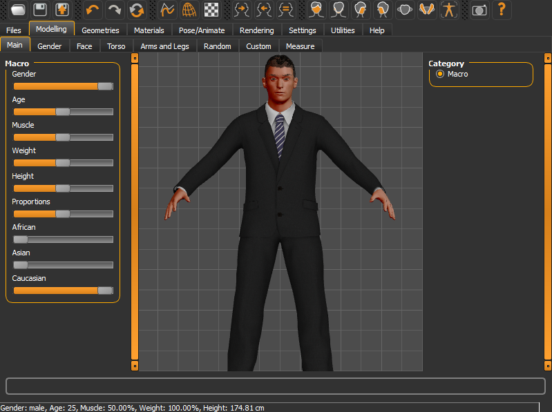 A screenshot of MakeHuman 1.0 alpha 8 Release Candidate